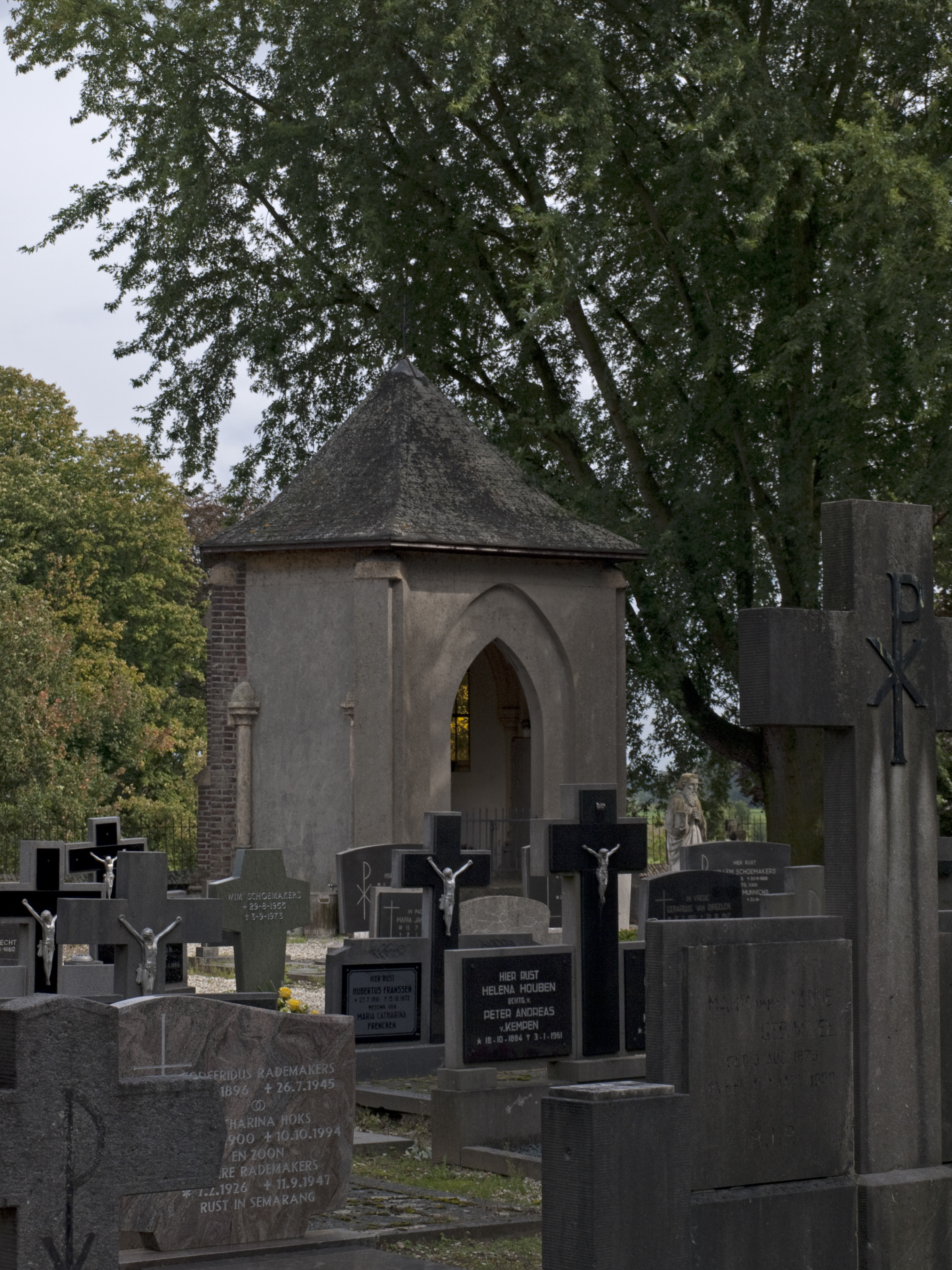 Cemetery Chapel, Melick